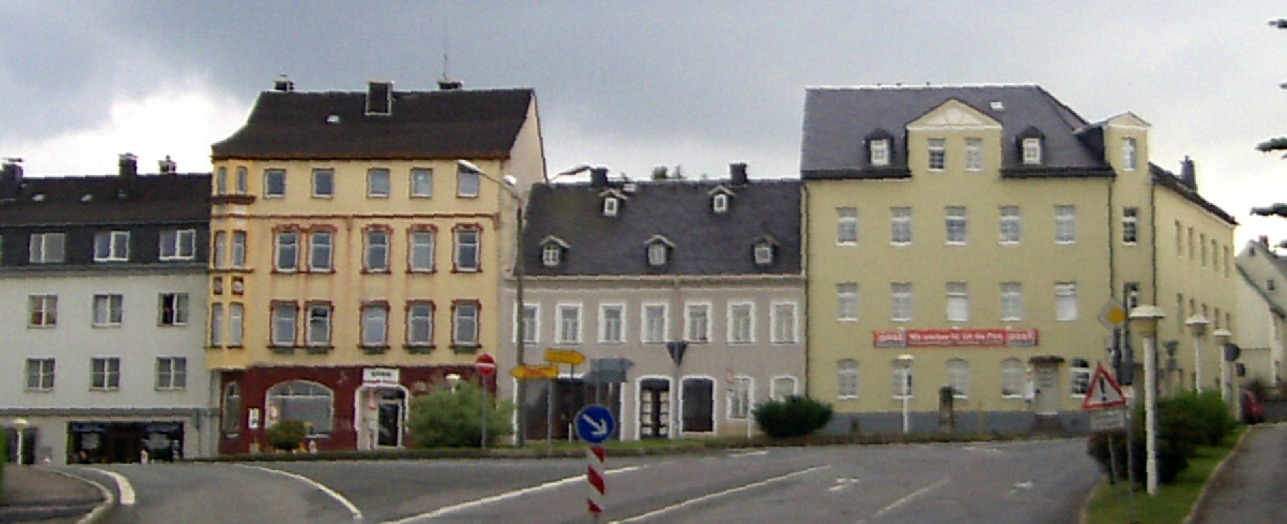 Lengefeld, marketplace